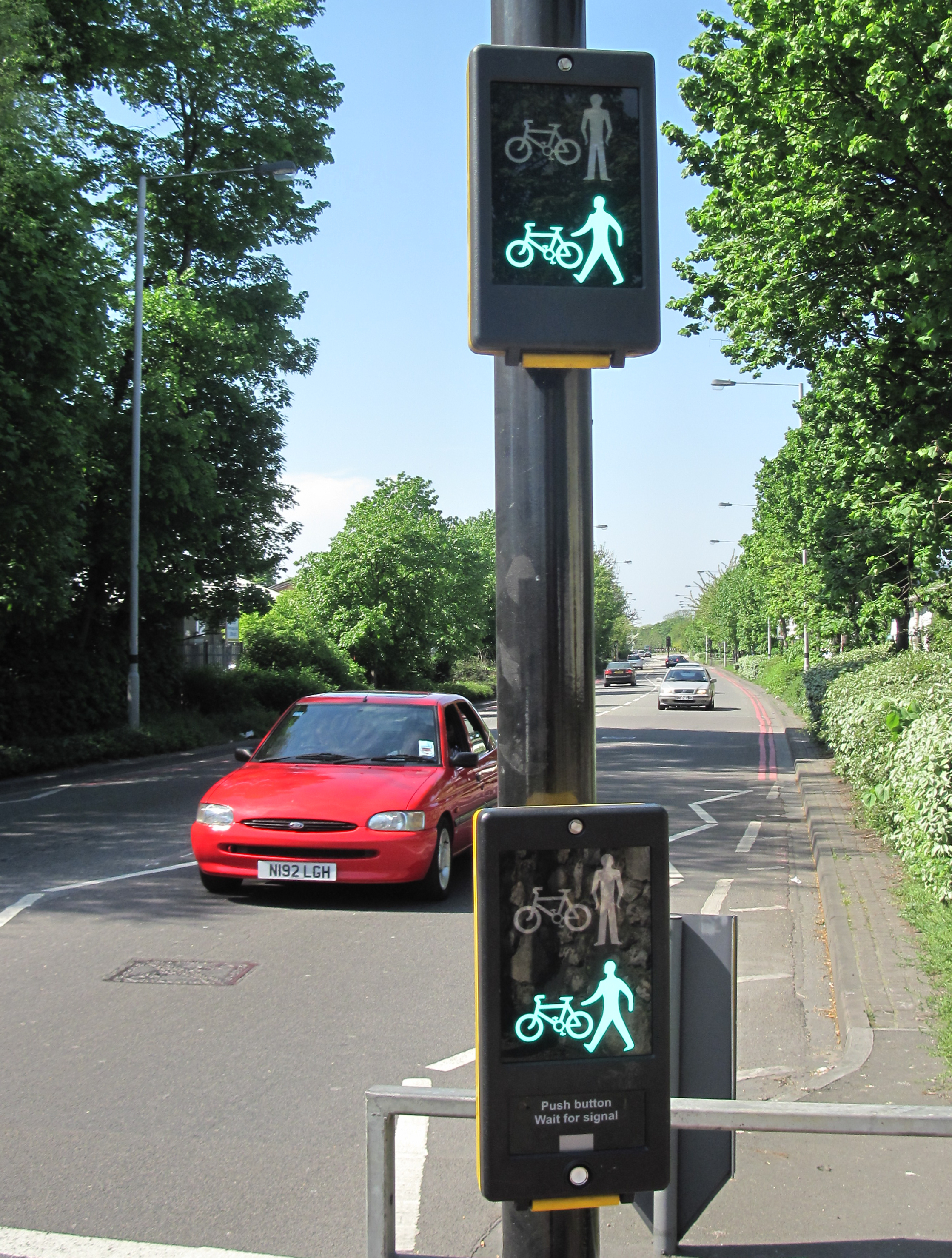 Colliers Wood, London